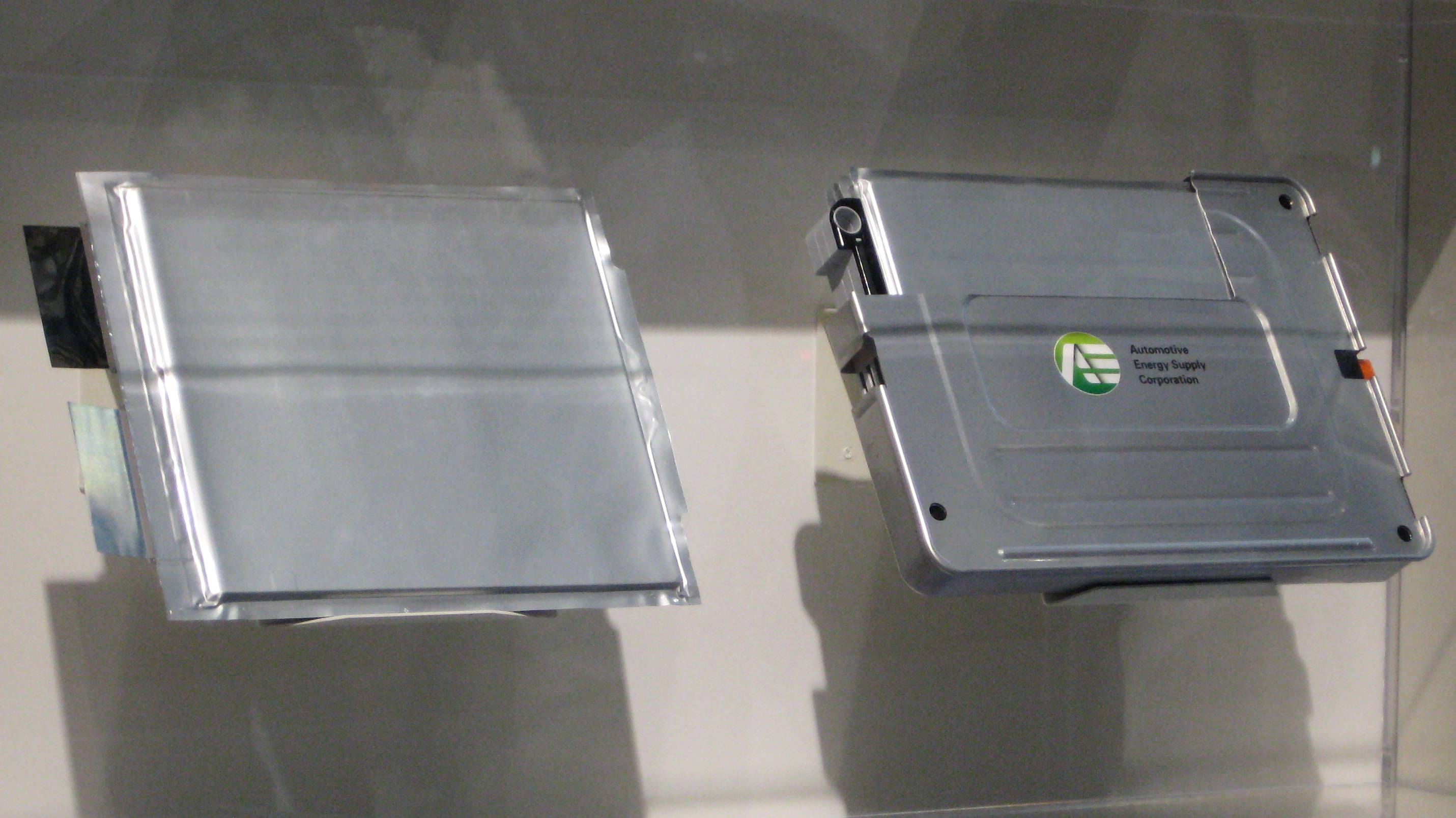 Nissan Li-ion Battery (used on Leaf) in Tokyo Motor Show 2009.